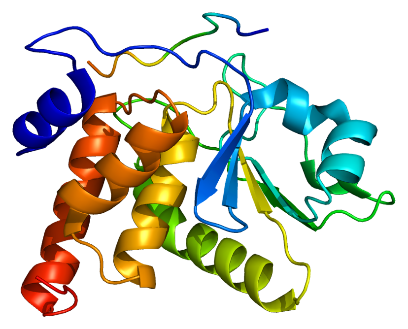 Structure of the DUSP3 protein. Based on PyMOL rendering of PDB 1j4x.